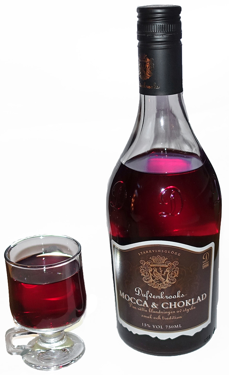 Dufvenkrooks Mocca & Choklad glögg.